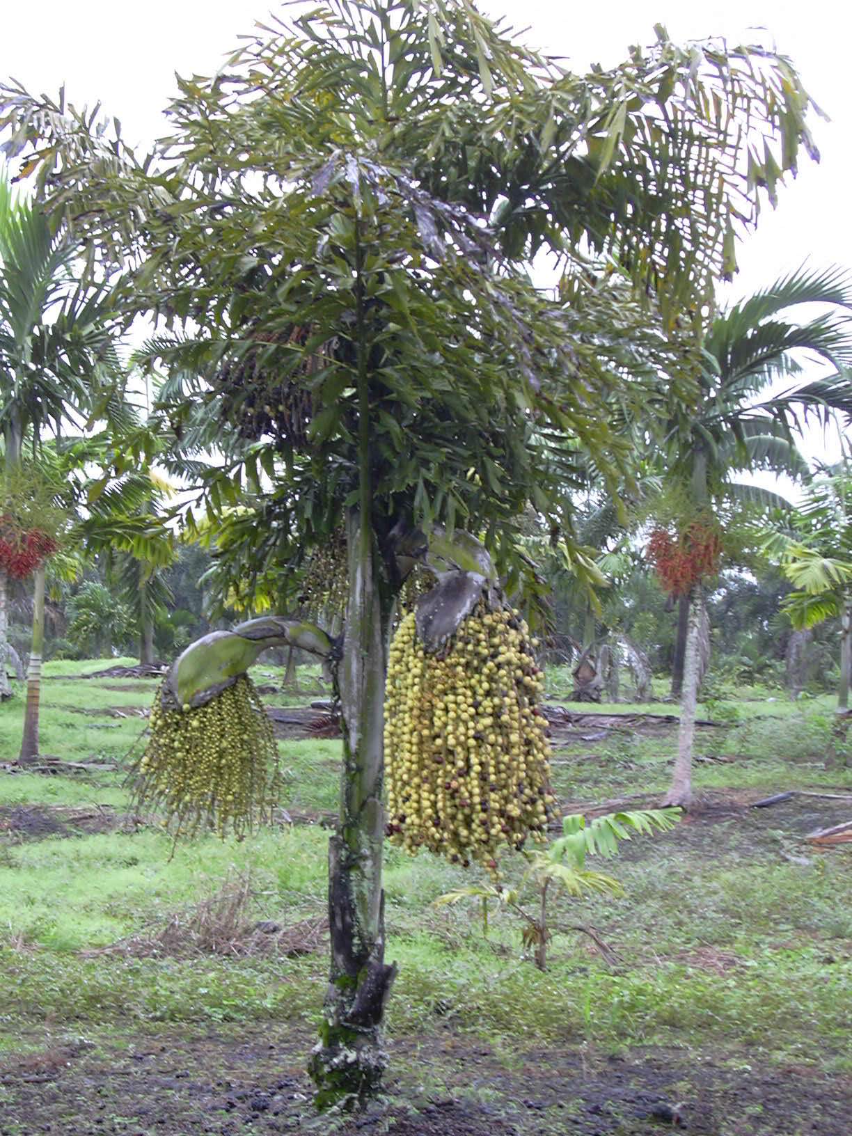 Caryota urens (habit). Location: Hawaii, Hilo